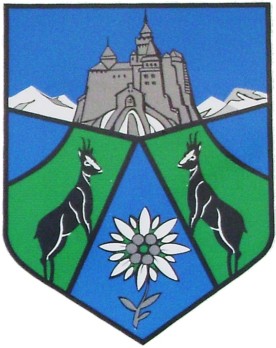 Coat of arms of Bran, Braşov County, Romania